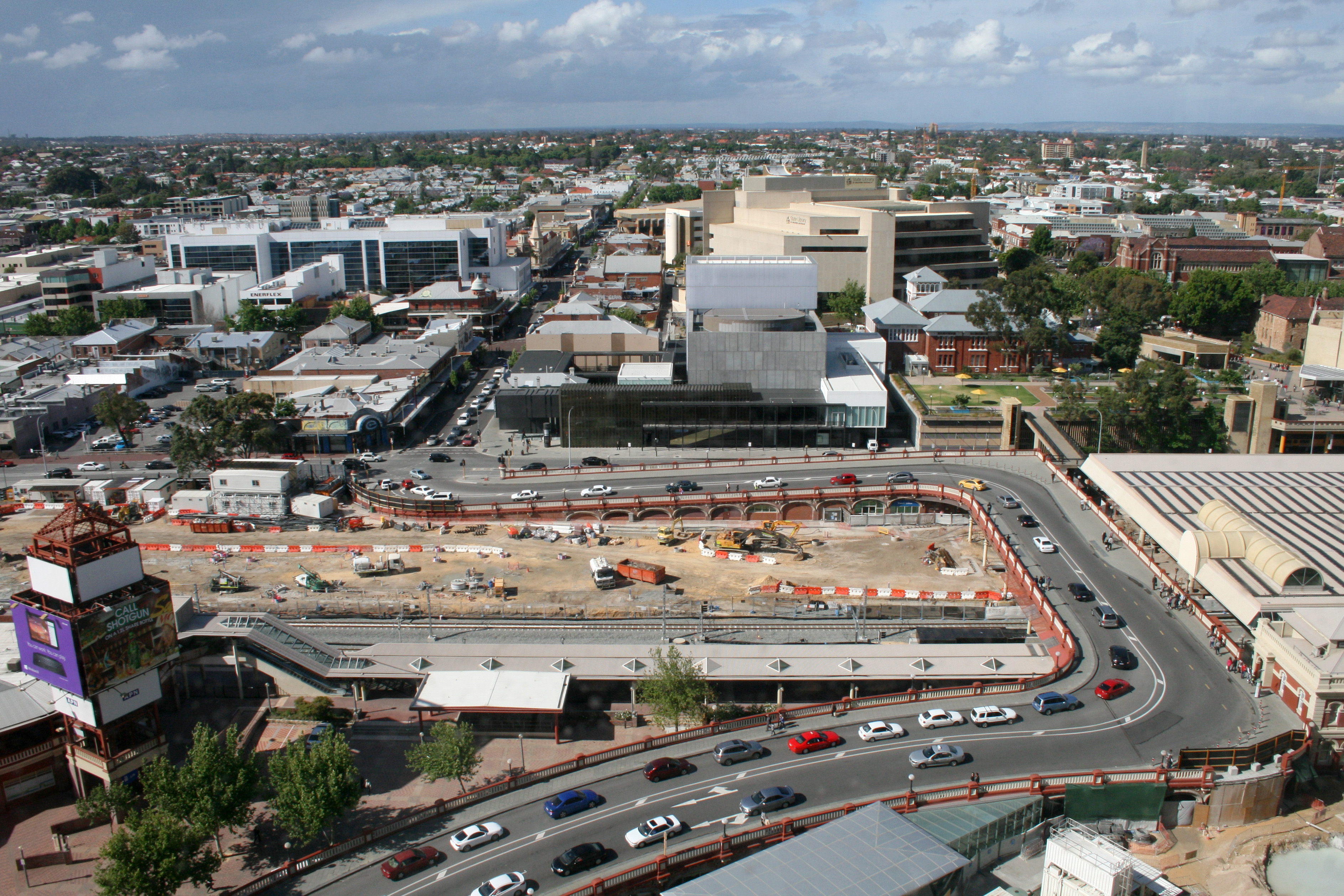 Horseshoe Bridge in November 2012 with Perth City Link construction happening under and adjacent to it. Northbridge is seen in the top left corner of the photo, the Perth Cultural Centre in the top right corner and Perth railway station to the right of the bridge. Photo taken from Gordon Stephenson House.